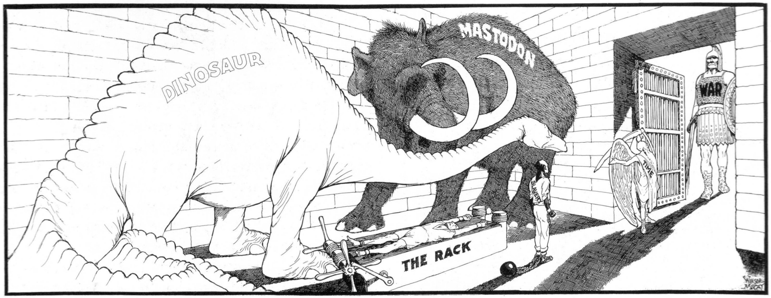 "Oblivion's Cave--Step Right In, Please" Editorial by Winsor McCay for 1922-03-19